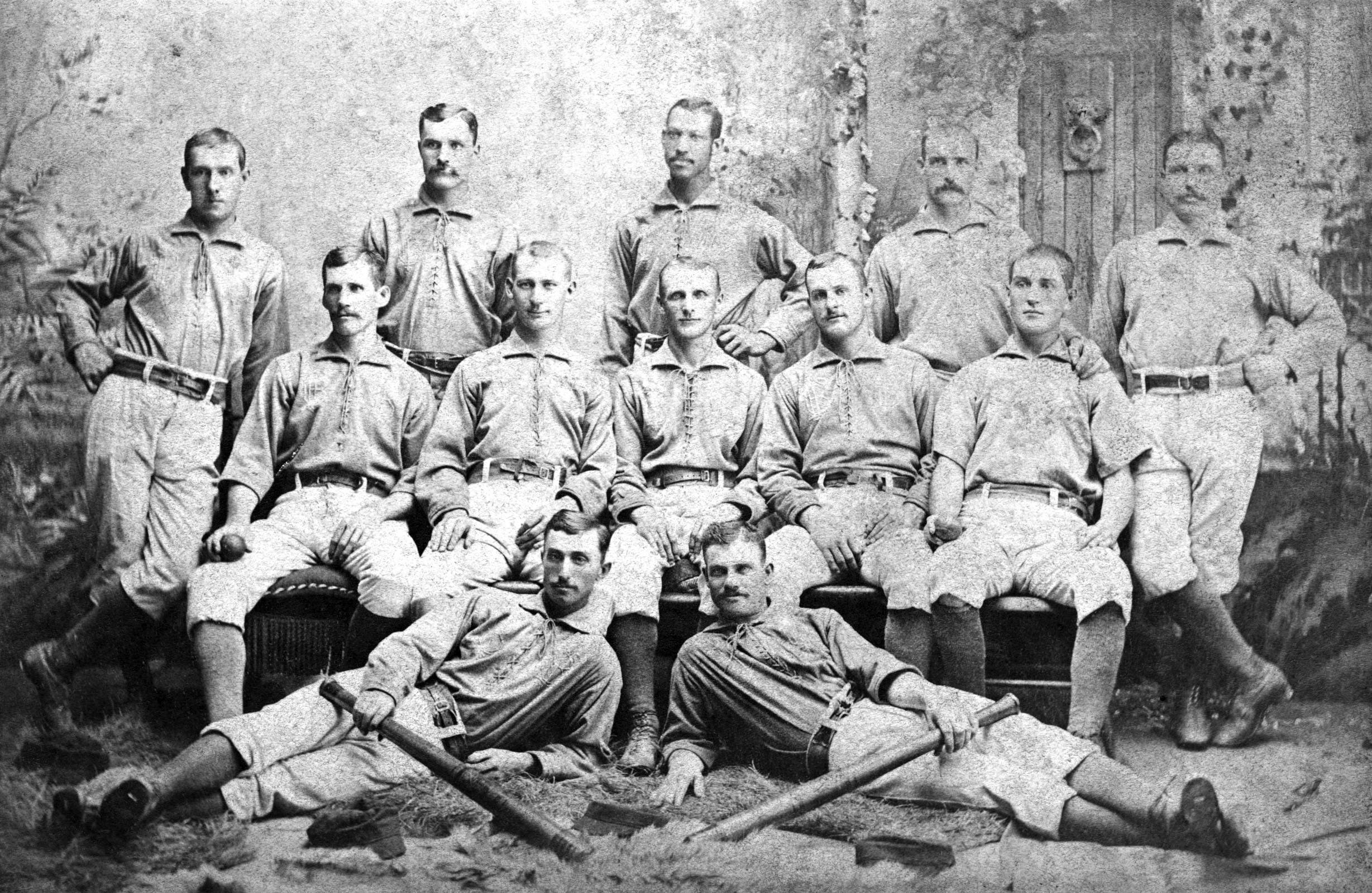 1884 Toledo Blue Stockings baseball team. Moses Fleetwood Walker is in the center of the top row.